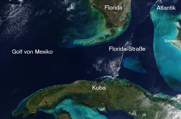 Straits of Florida, Floridastraße